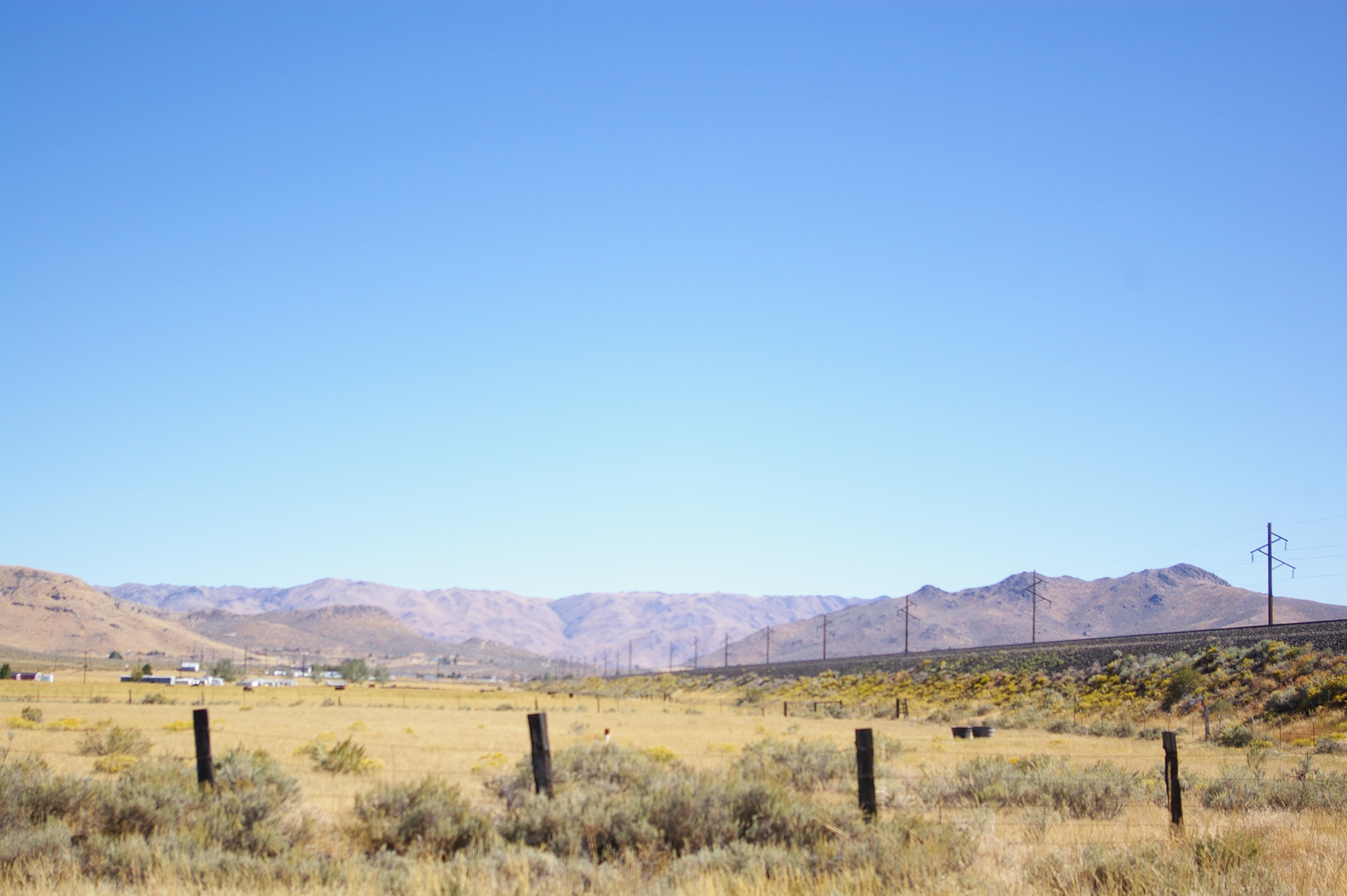 Looking east at the crossing of the ex-Western Pacific Railroad's Feather River Route towards Beckwourth Pass. Beckwourth Pass is a California Historical Landmark.